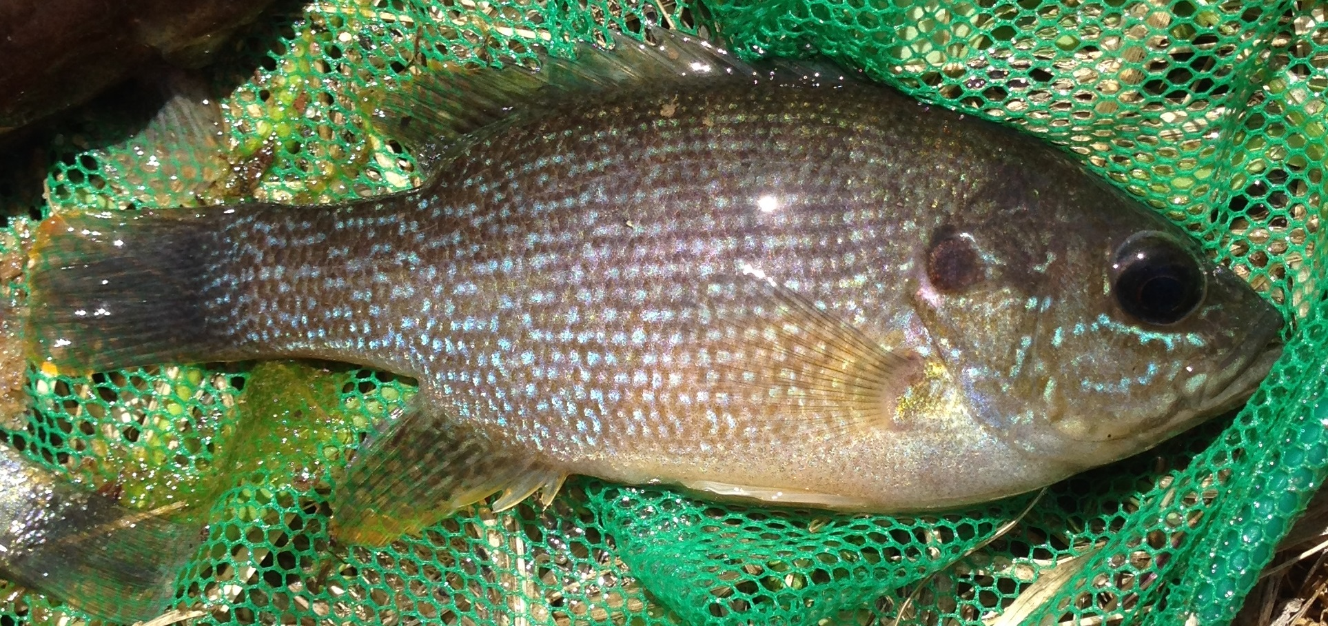 A green sunfish (Lepomis cyanellus) at the University of Mississippi Field Station.